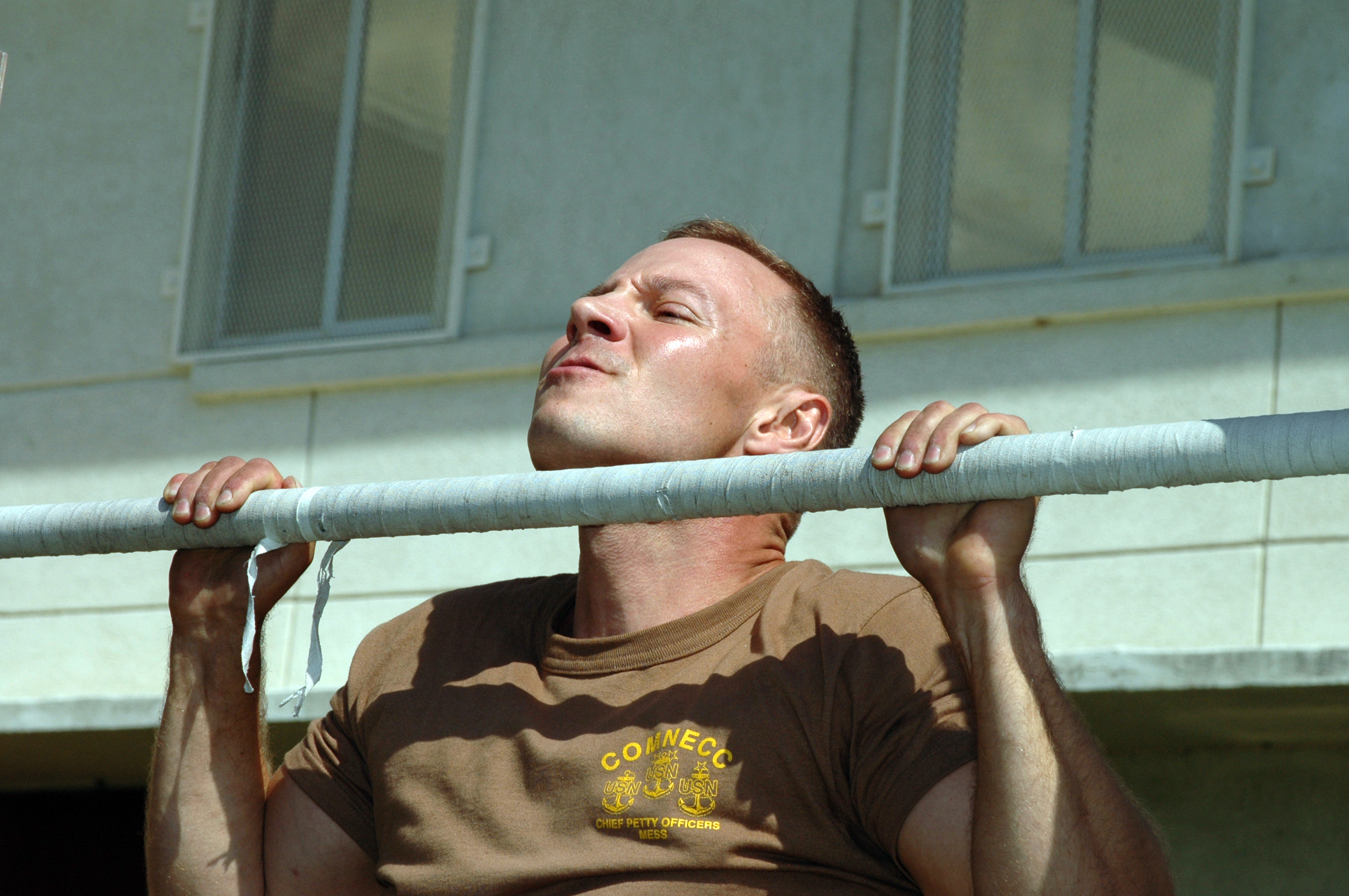 NORFOLK, Va. (Sept. 3, 2008) Senior Chief Master-at-Arms Andrew Diachok, assigned to Navy Expeditionary Combat Command (NECC), pumps out one last pull-up at NECC's inaugural Toughman Competition. The competition was held to help increase physical fitness awareness and improve command morale. (U.S. Navy photo by Mass Communication Specialist 2nd Class Michael R. Hinchcliffe/Released)